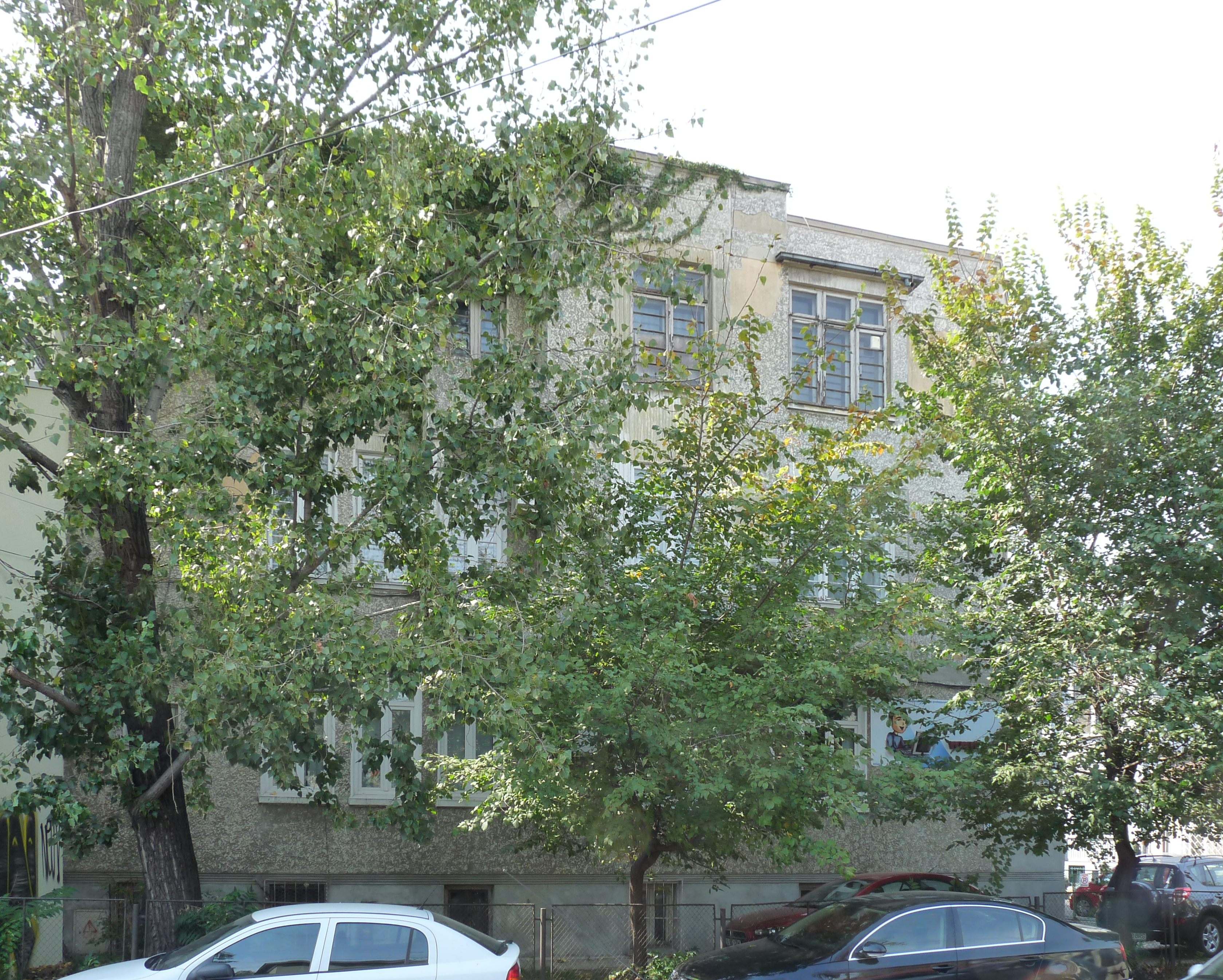 Historic building in Bucharest, Romania, at Polona street 51.